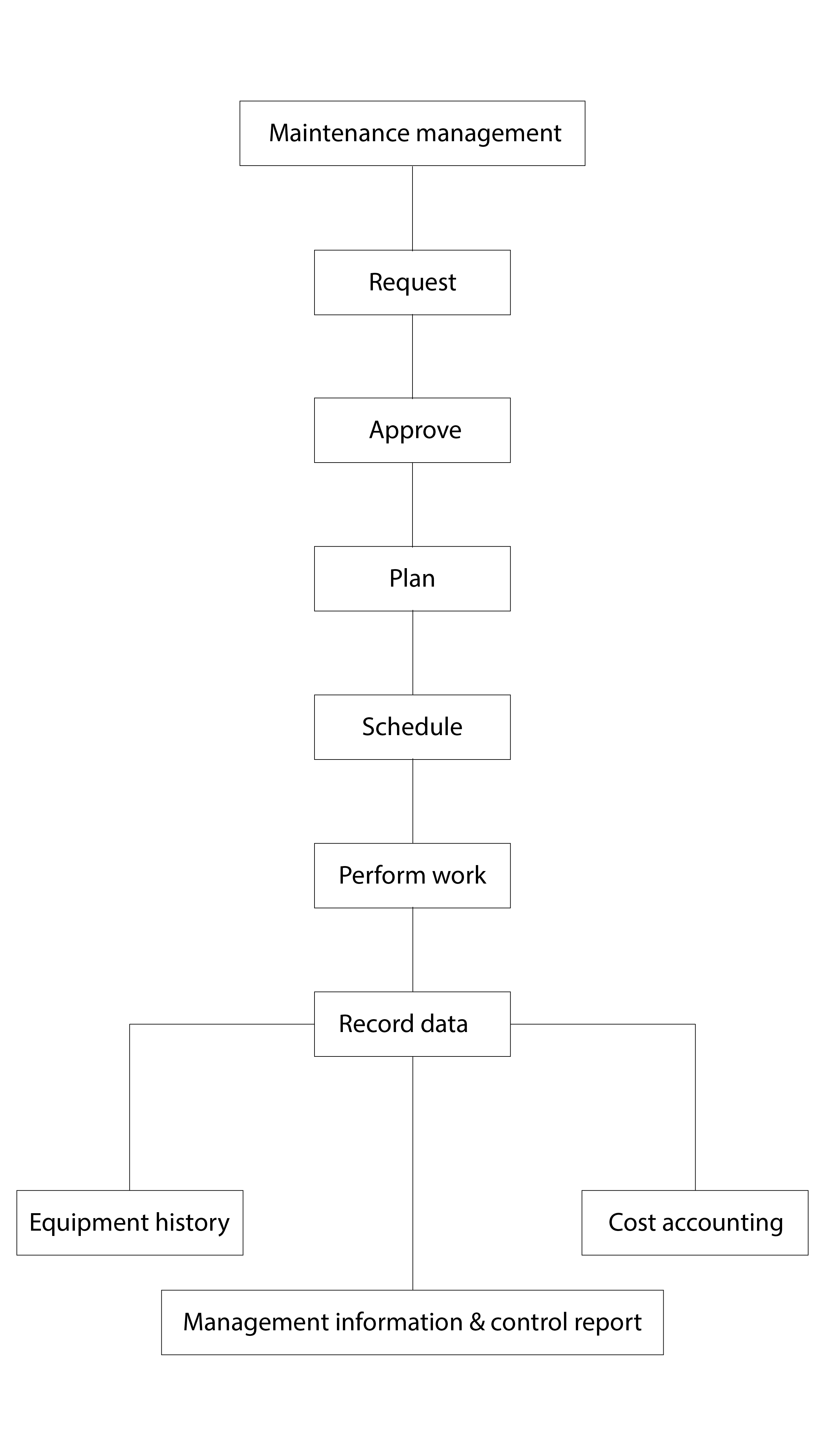 Steps to creating a CMMS Plan